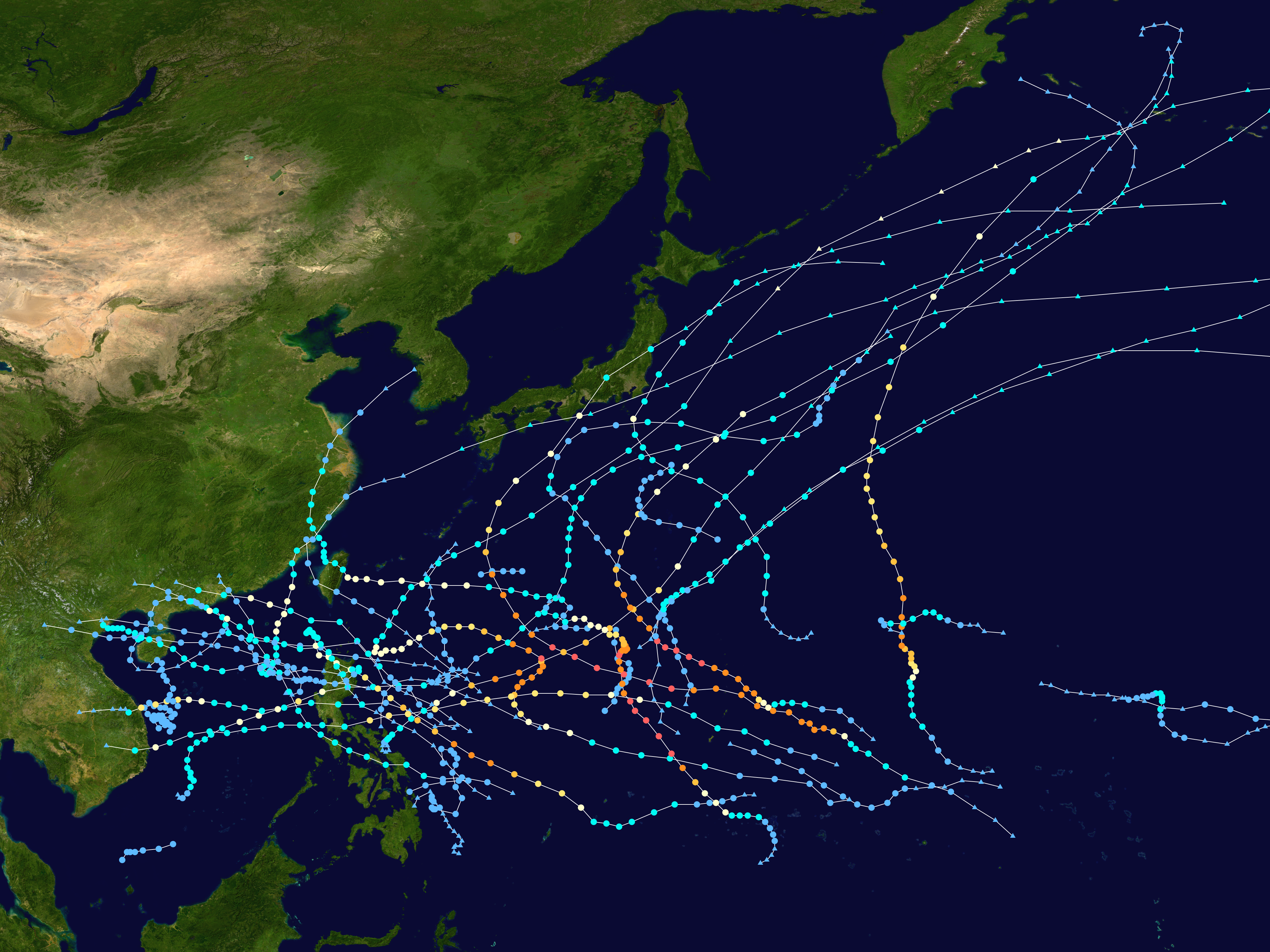 This map shows the tracks of all tropical cyclones in the 2009 Pacific typhoon season. The points show the location of each storm at 6-hour intervals. The colour represents the storm's maximum sustained wind speeds as classified in the Saffir-Simpson Hurricane Scale (see below), and the shape of the data points represent the type of the storm. Saffir–Simpson scale Tropical depression≤38 mph≤62 km/h Category 3111–129 mph178–208 km/h Tropical storm39–73 mph63–118 km/h Category 4130–156 mph209–251 km/h Category 174–95 mph119–153 km/h Category 5≥157 mph≥252 km/h Category 296–110 mph154–177 km/h Unknown Storm type Tropical cyclone Subtropical cyclone Extratropical cyclone / Remnant low / Tropical disturbance / Monsoon depression